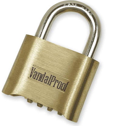 Vandal Proof lock.